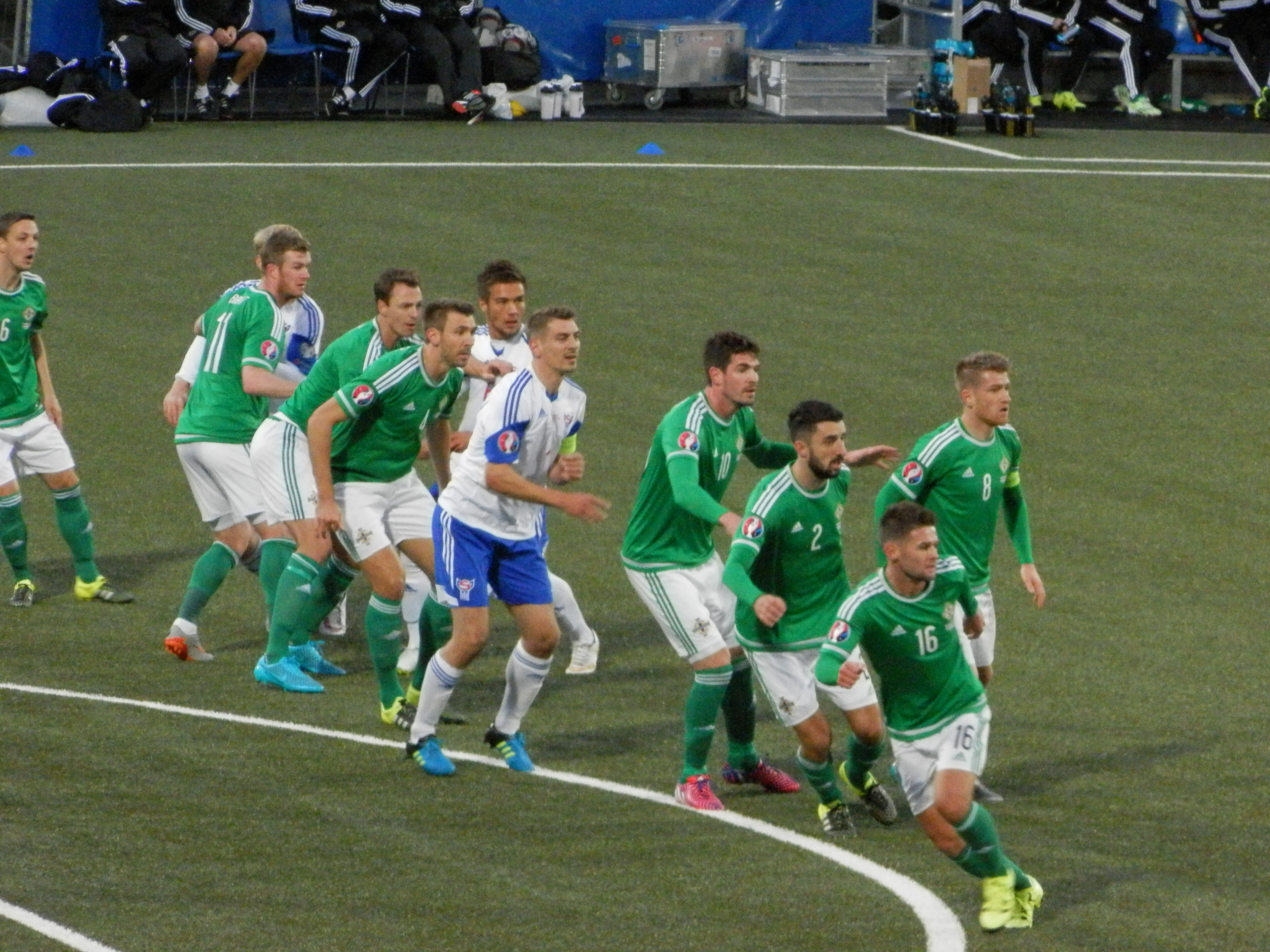 Football match between the national teams of the Faroe Islands and Northern Ireland on Tórsvøllur in Tórshavn, 4 September 2015. The result was 1-3.